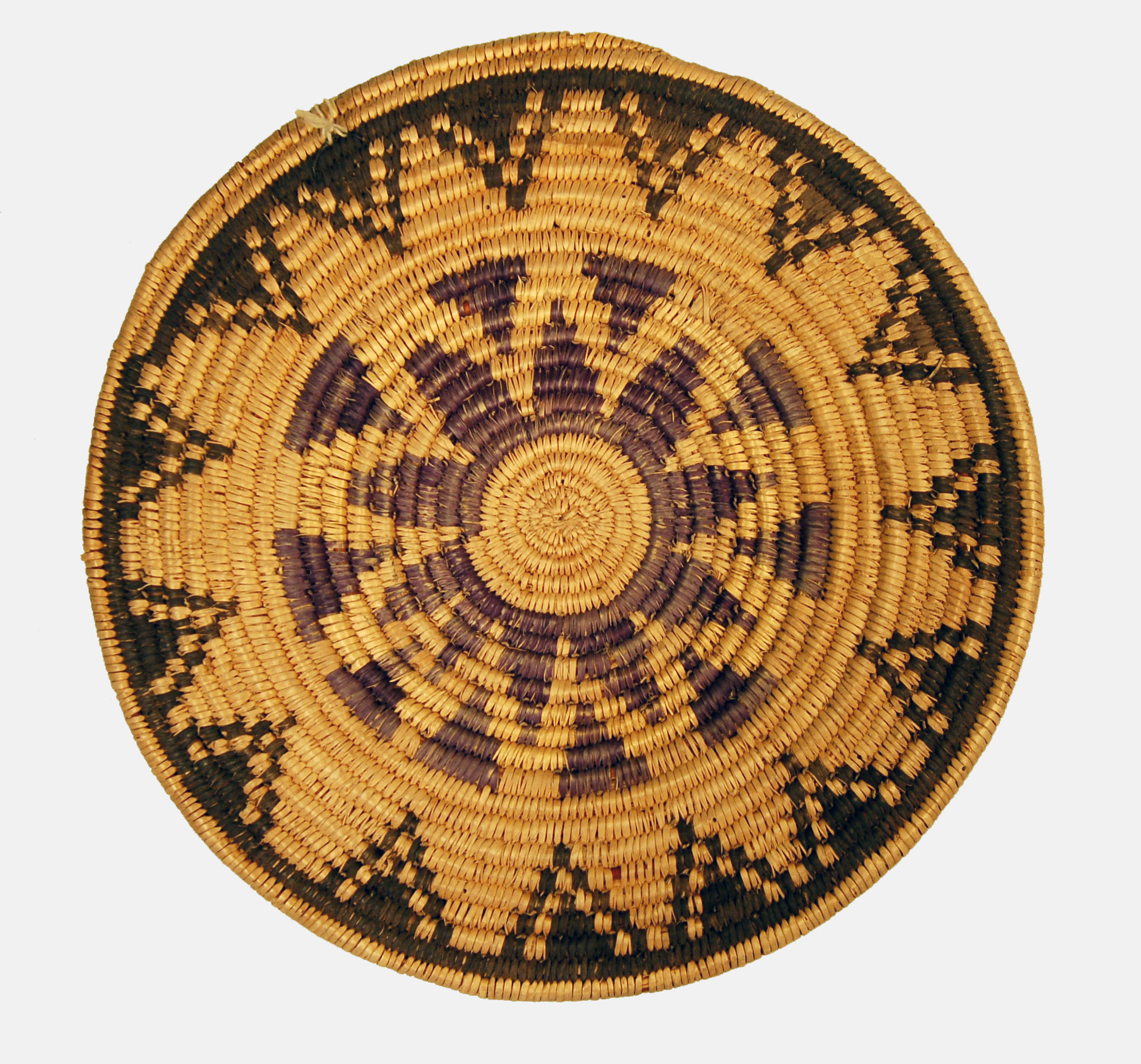 BACK SIDE OF HAVASUPAI BASKETRY PLAQUE HAVING A BORDER DESIGN OF VERY DARK BROWN PYRAMIDS. BLUE CENTER DESIGN OF TRIANGLES. COILED METHOD OF BASKETRY. BLUE FIBERS ARE DYED. DARK BROWN FIBERS ARE NATURAL COLORED. DIA 26.3 CM. Circa 1907 Grand Canyon National Park Museum Collection, P.O. Box 129, Grand Canyon, AZ 86023